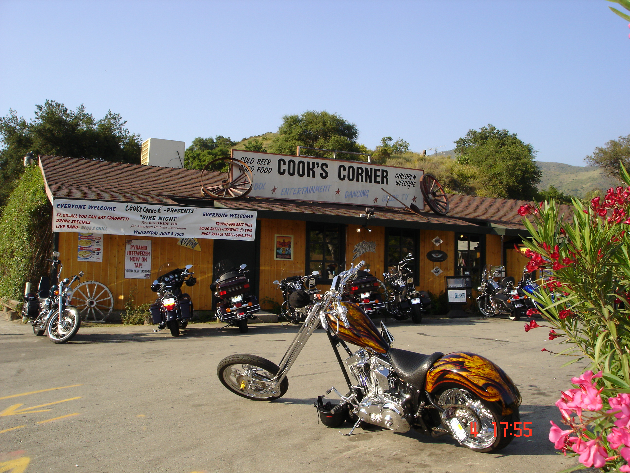 Cooks Corner circa 2005 After much restoration on both the interior and exterior, Cooks has a new look. Auth: Peter "Whiskey" Arnt